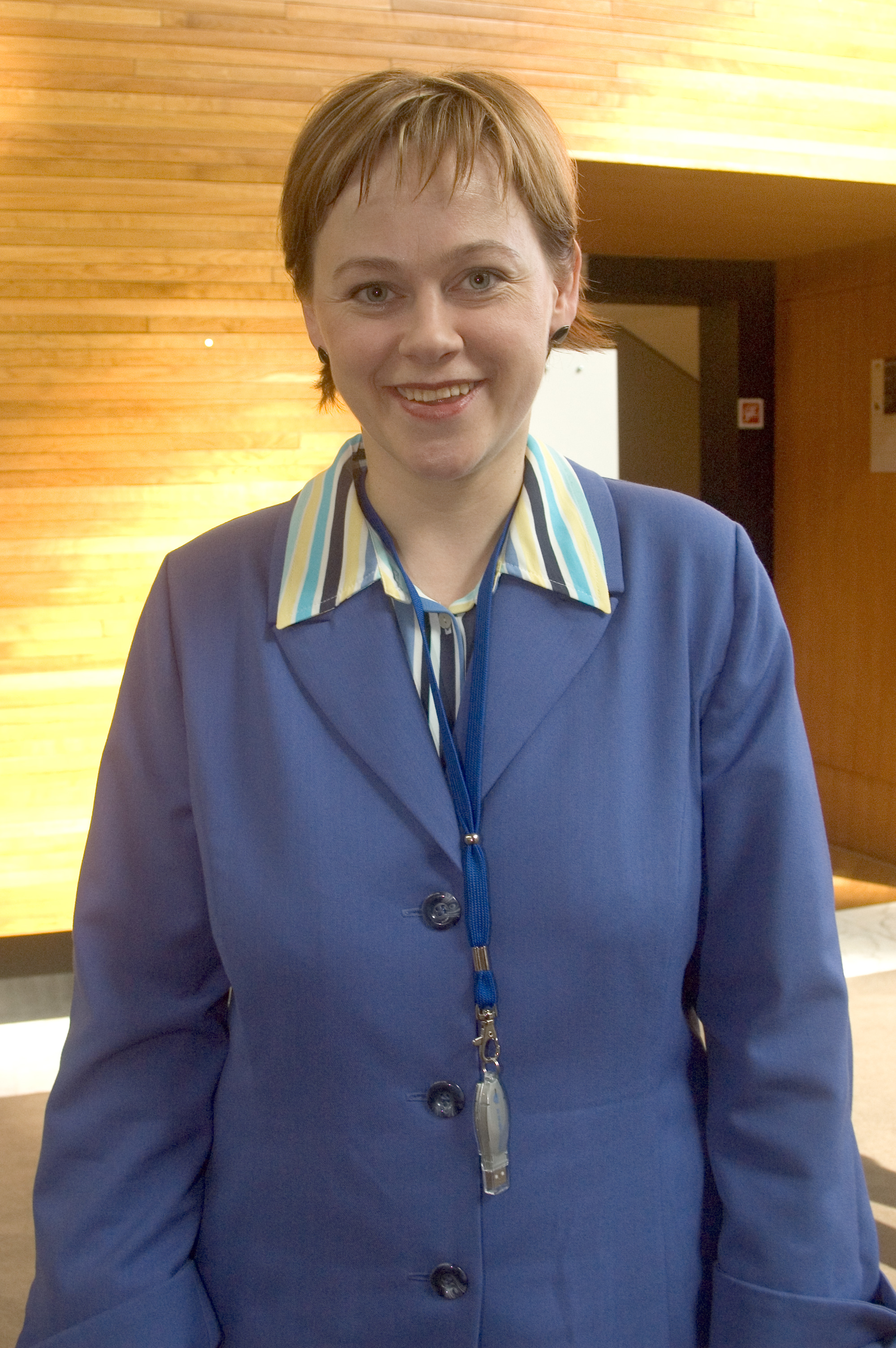 Paula Lehtomäki, at European Parliament Strasbourg